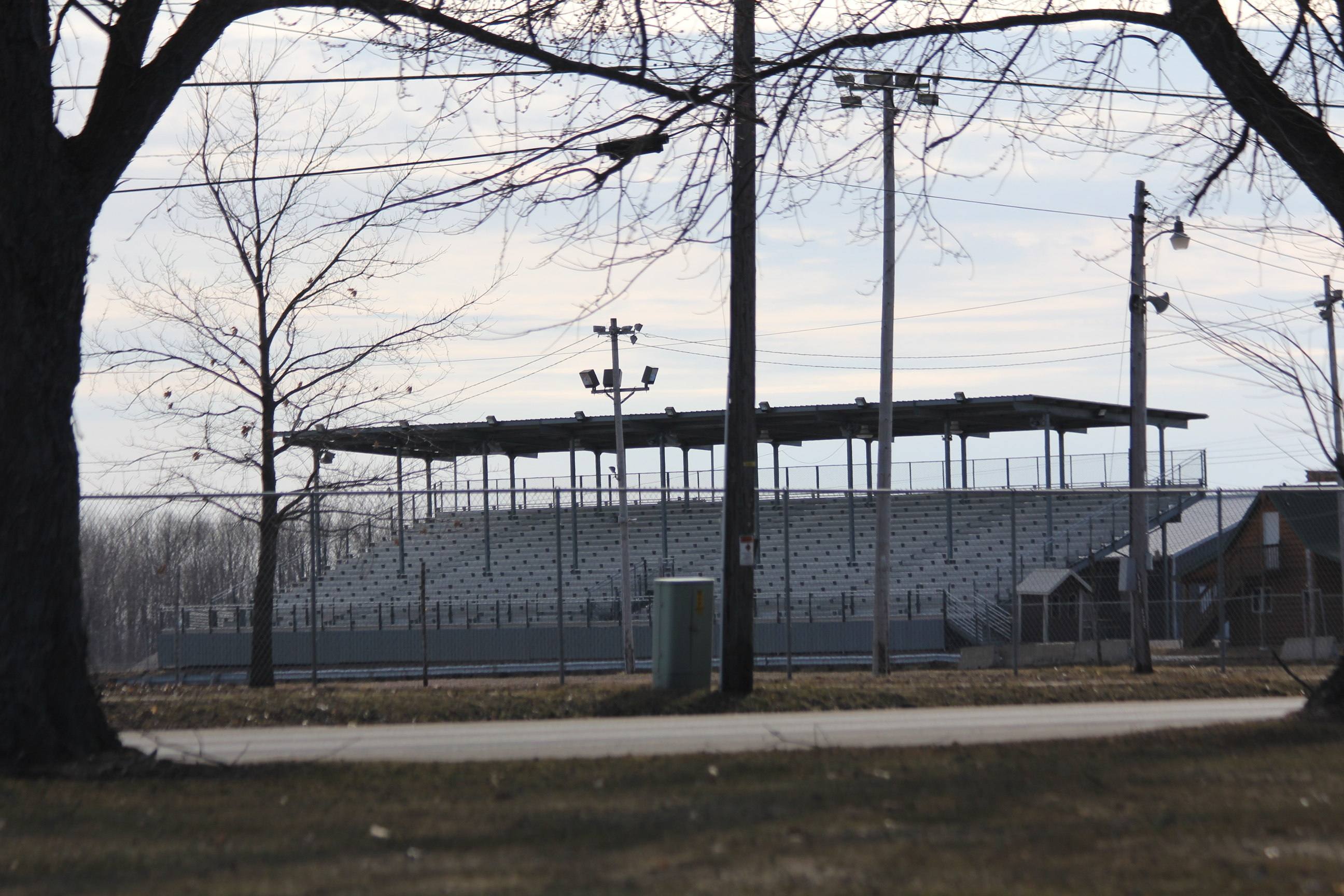 The grandstands at the Clark County, Wisconsin fairgrounds.